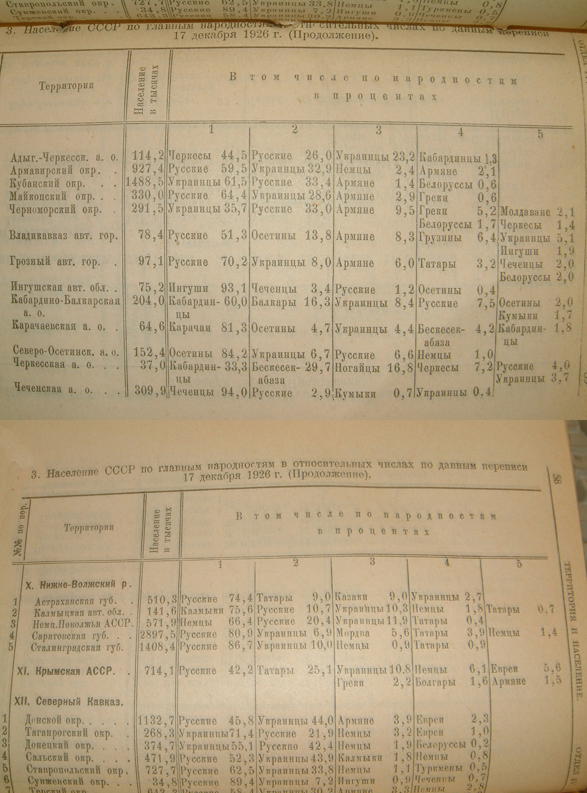 Pre-war publication by Soviet legal entity 1926 Census results for Kuban region. From "Summary of 10 years of Soviet governance" 1927. Moscow